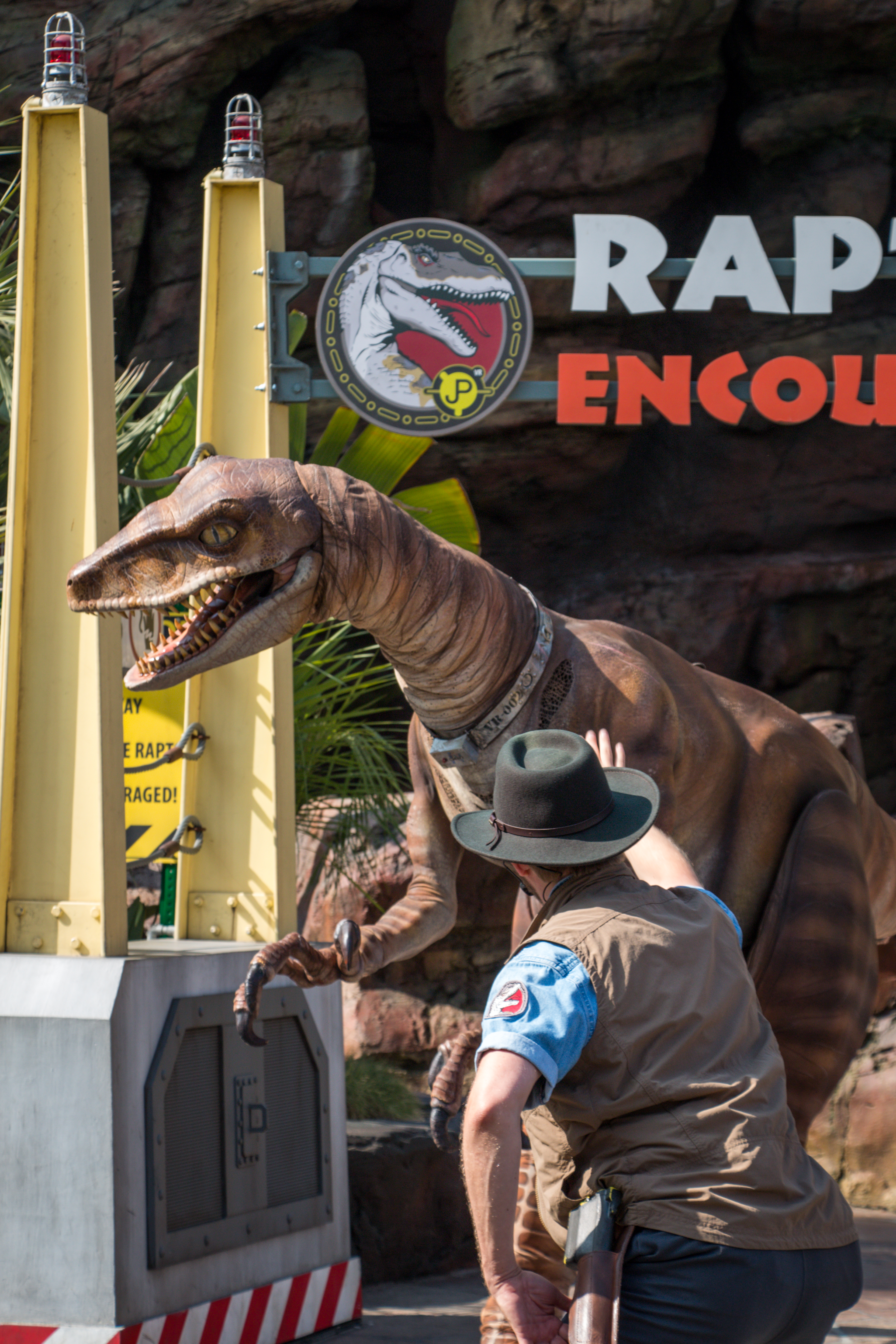 A raptor in training at Universal Studios Hollywood.